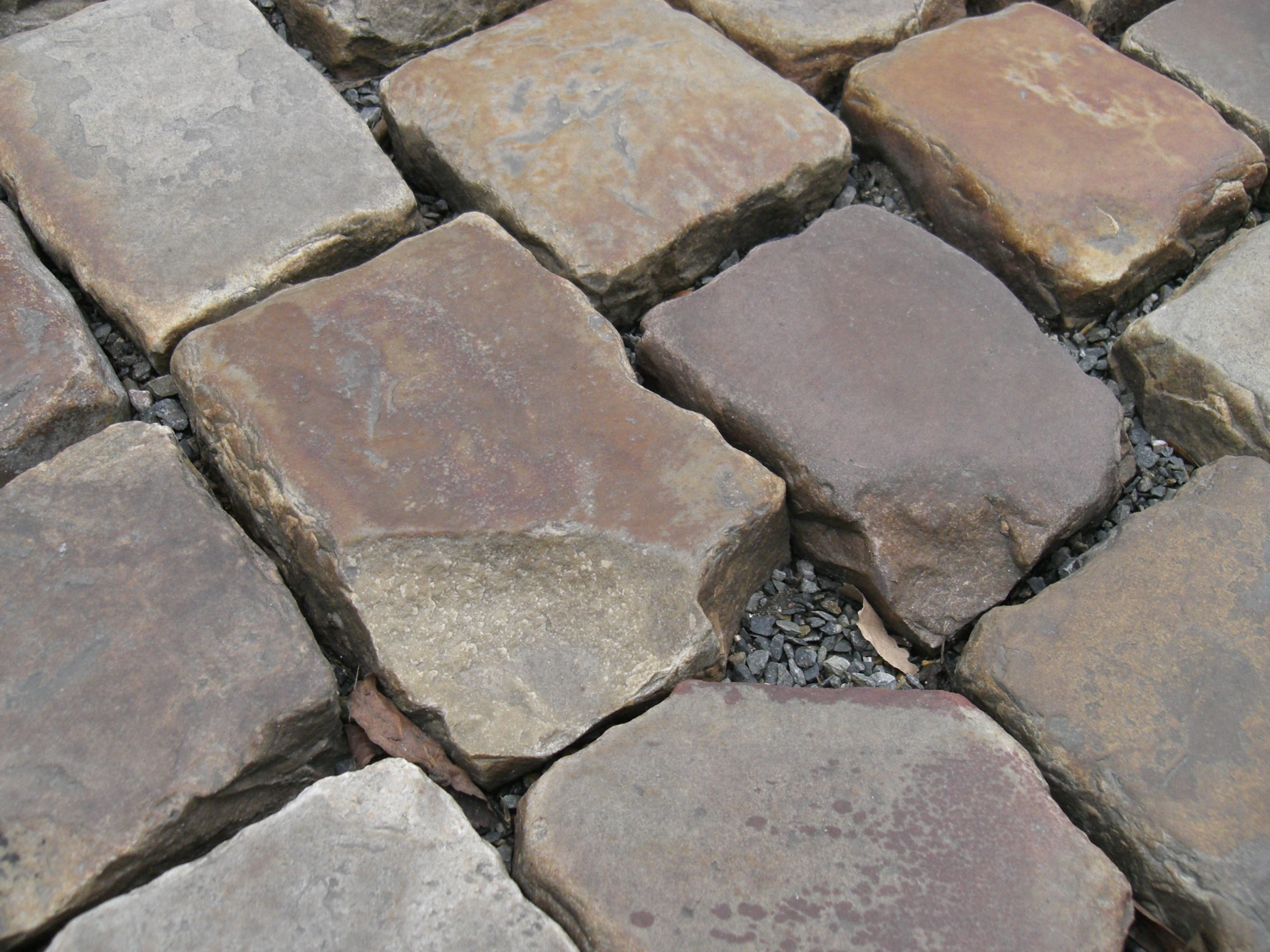 Prague-Vyšehrad, street with cobblestone called "kočičí hlavy".